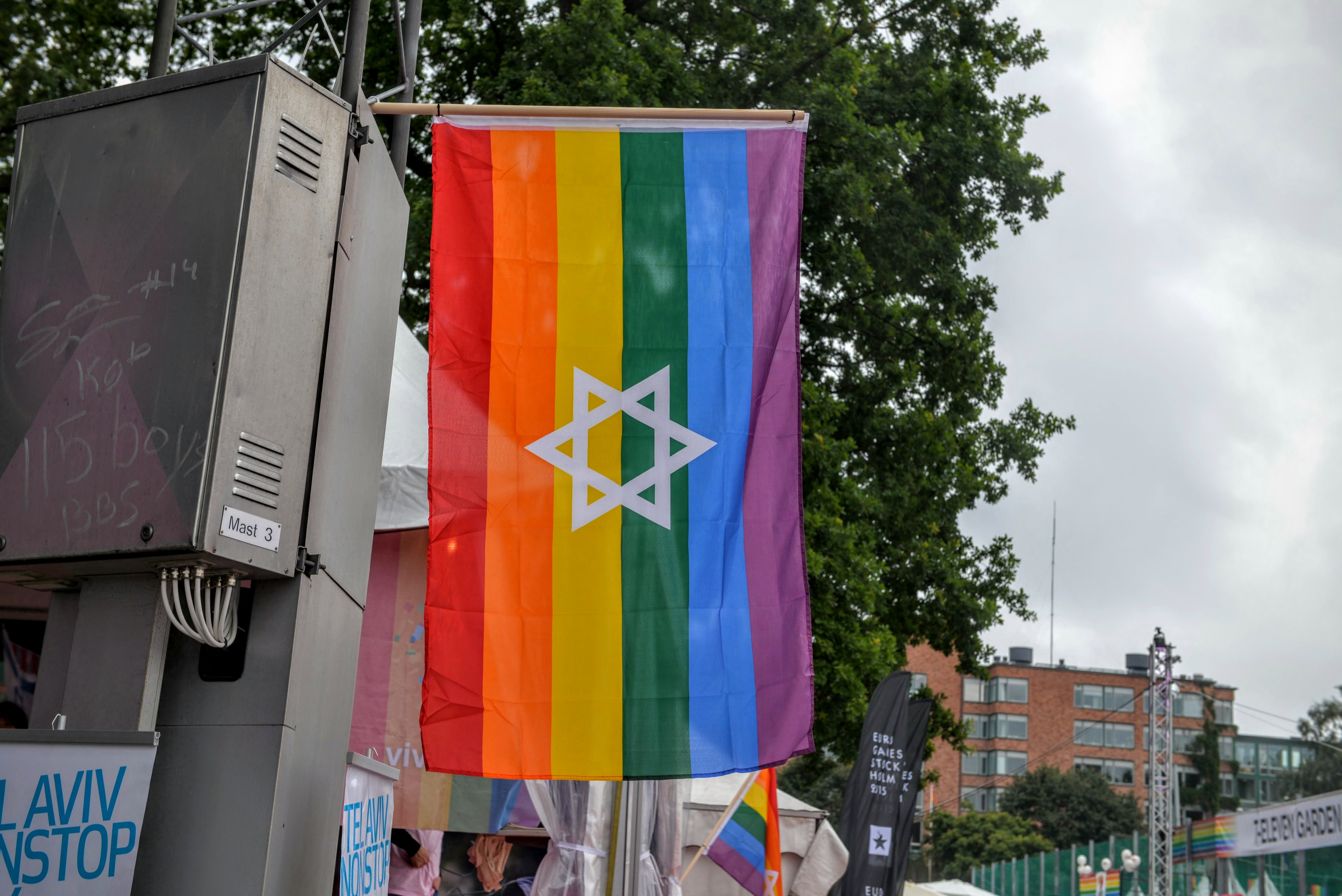 Stockholm Pride 2015 - Pride Park